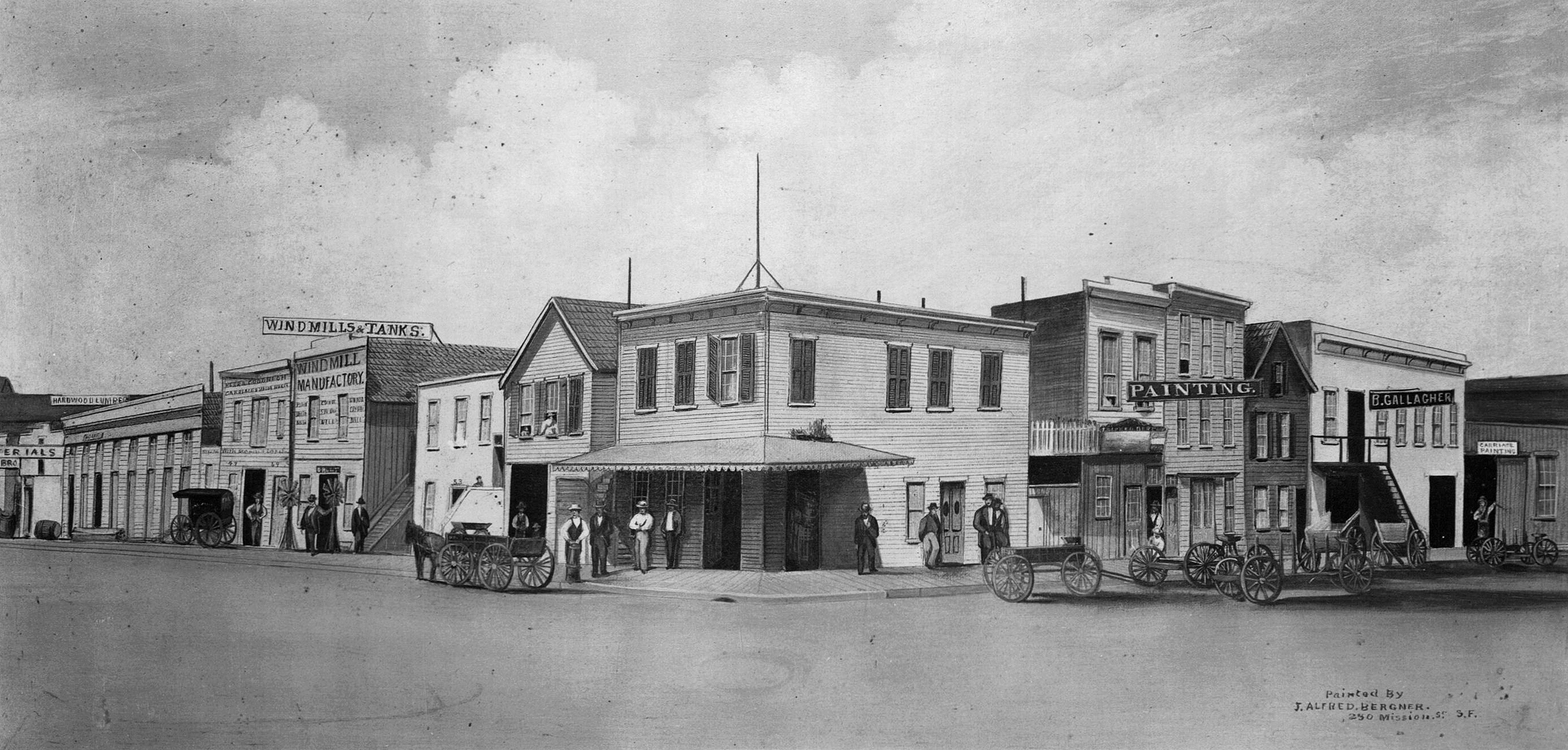 Alfred Bergner, Corner of Beale and Mission Streets, San Francisco, c. 1863. Oil on canvas, 15 x 30 in. The Frick Collection / Frick Art Reference Library Photoarchive.